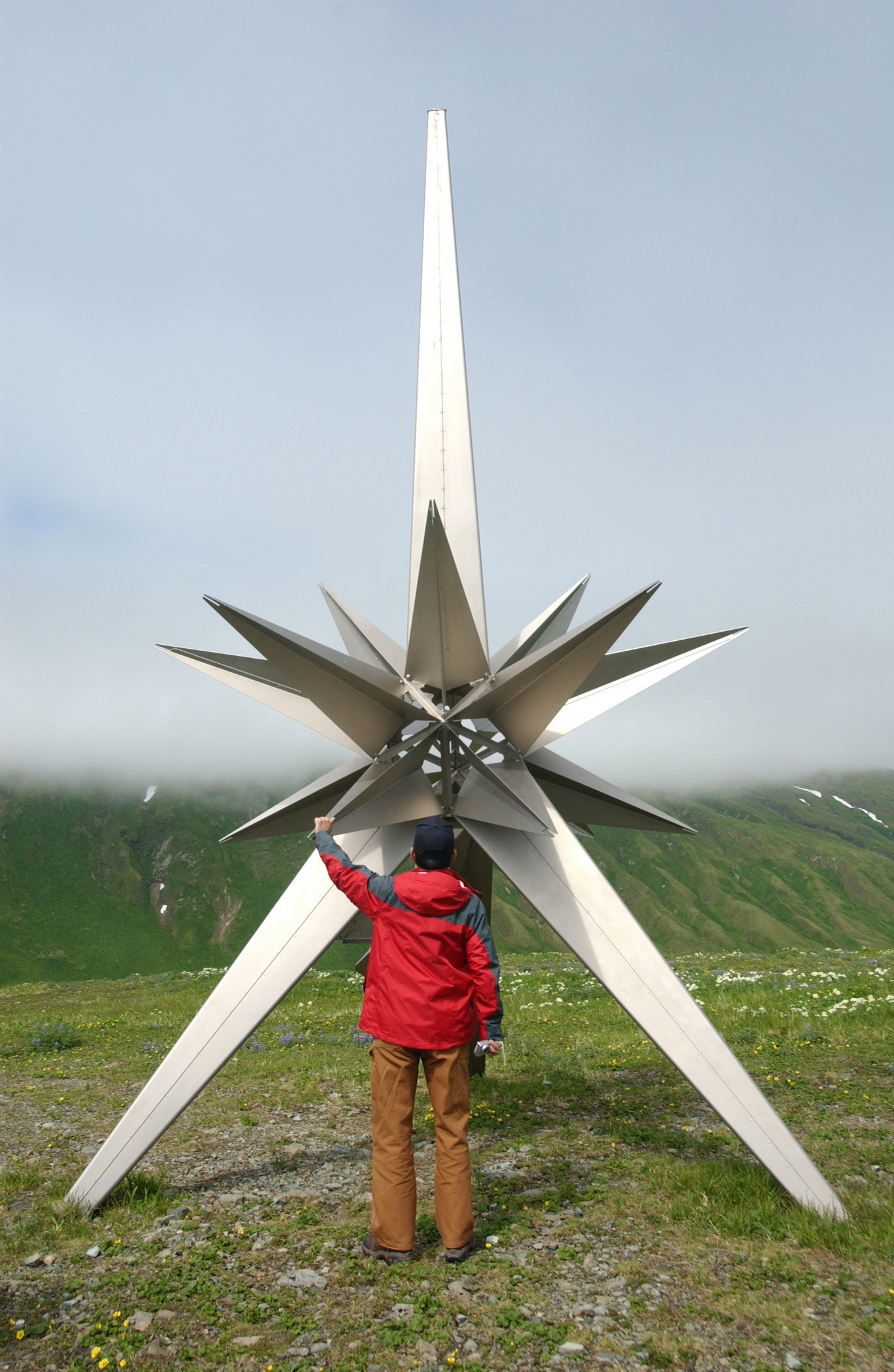 Toshino Makino examines the Peace Monument on Attu Island July 11, 2007. Makino was sent to Attu as part of a Japanese delegation to identify the location of the remains of Japanese soldiers and ensure the titanium monument has not been damaged by the extreme weather of Attu Island. Other references for the memorial: U.S. Coast Guard Press Release 2007-07-17 SitNews, Ketchikan, Alaska, 2003-10-03